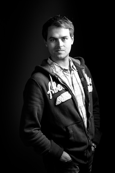 Entrepreneurial Portrait of Taneli Tikka Original photos is framed on the "Wall of honor" at Aalto University Entrepreneurship Society Venture Garage, in Otaniemi, Finland. Photographed by Peter Forsgård.